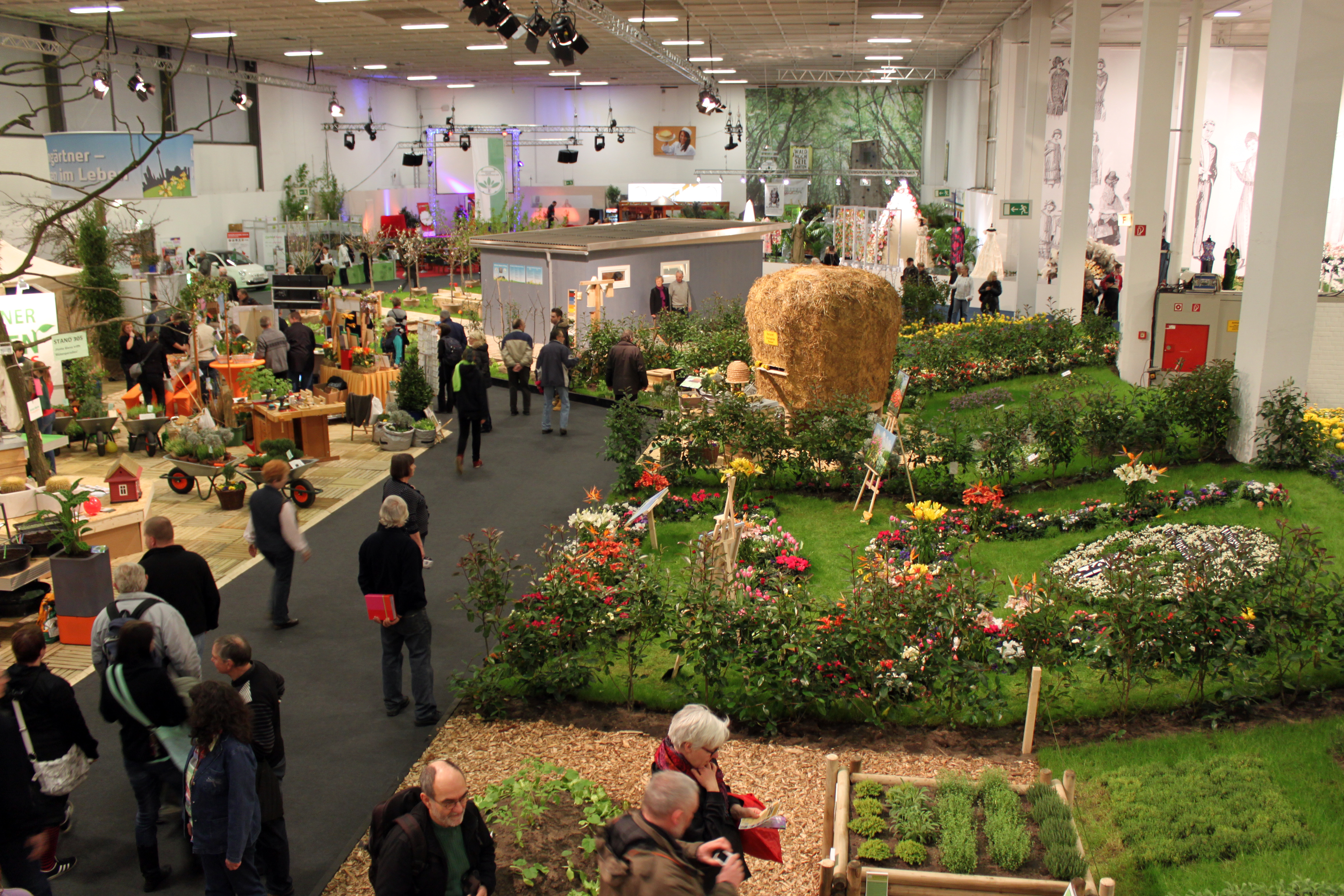 International Green Week (Grüne Woche) in Berlin on 24.01.2013